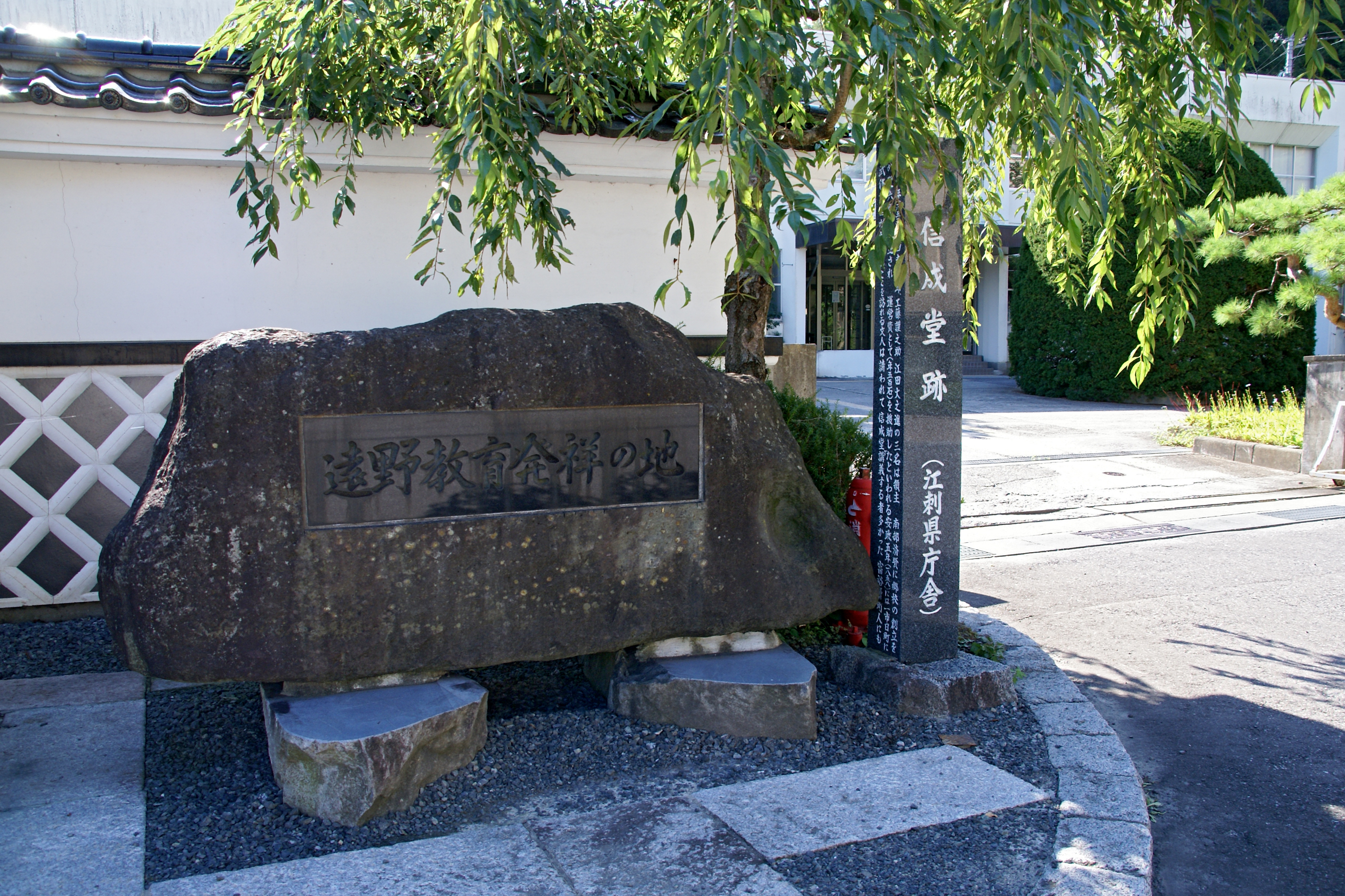 Esashi Prefectural Office ruins in Tono, Iwate prefecture, Japan.